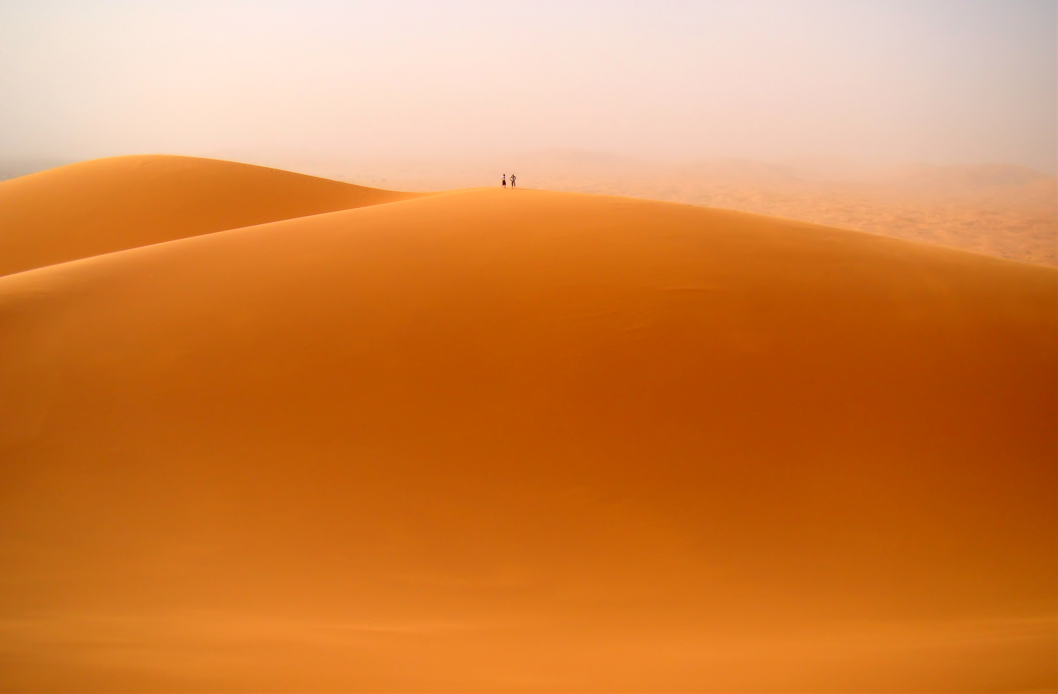 The top of the tallest dune above Merzouga on Erg Chebbi in Morocco during windy/sand-hazy conditions.